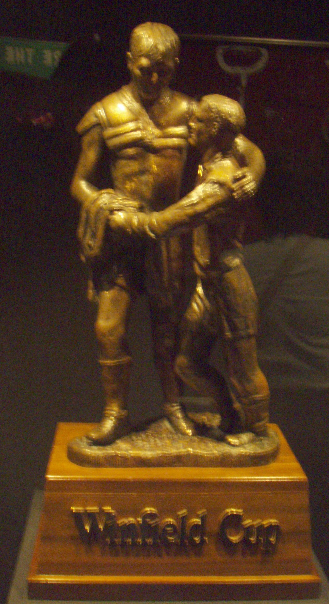 The Winfield Cup